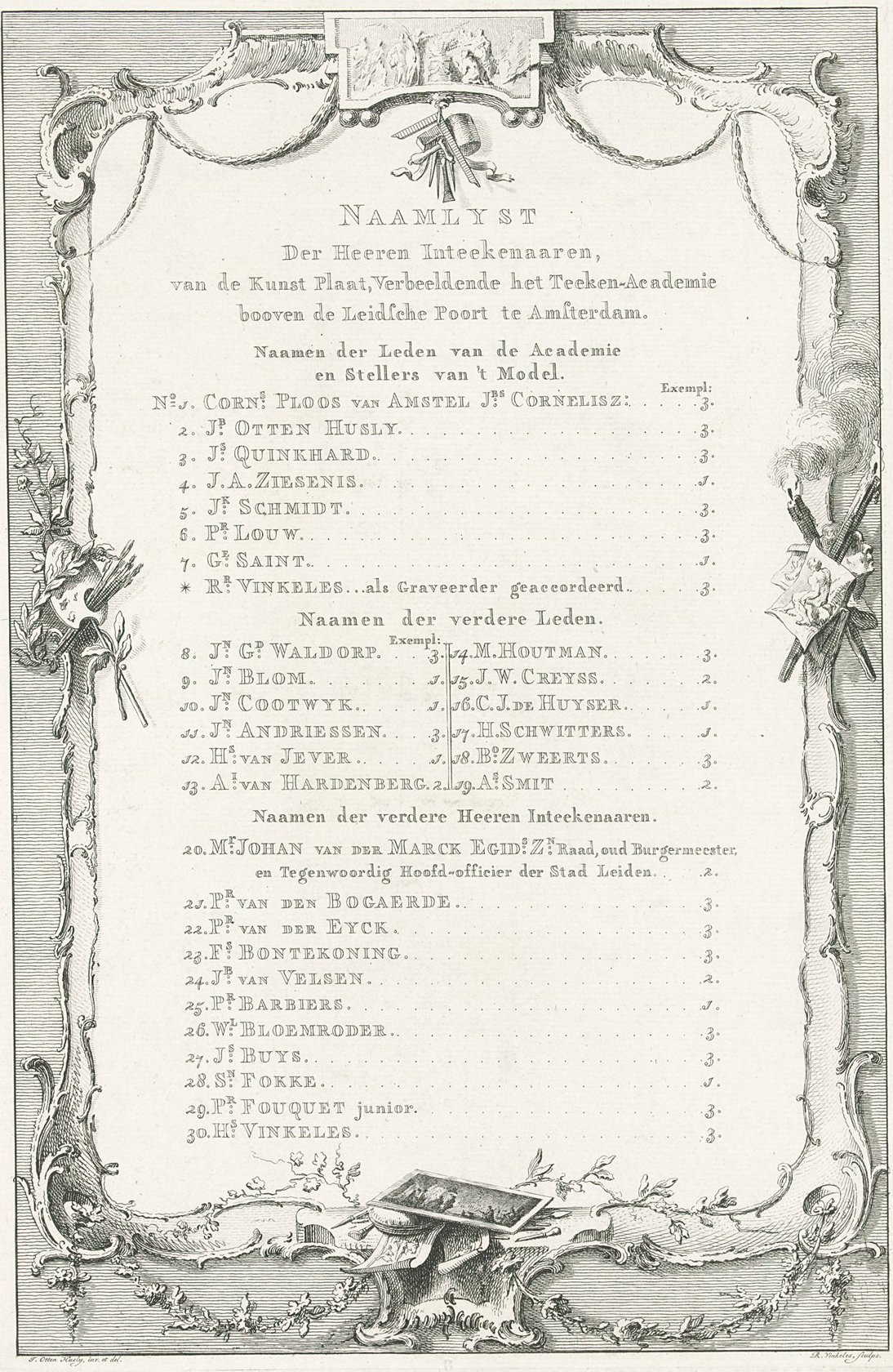 Names of the members and directors of the Amsterdam art academy in 1768 as sign-up list for buyers of another engraving commemorating the drawing lessons above the Leidsepoort in Amsterdam. That engraving shows the signers in romanticized poses. See the engraving here:Stadsarchief Amsterdam